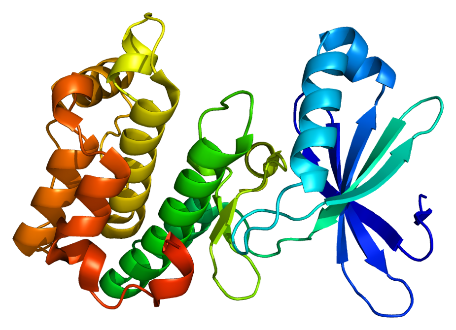 Structure of the PRKAA1 protein. Based on PyMOL rendering of PDB 2h6d.